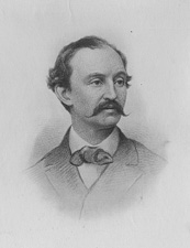 From the U.S. Senate historical office